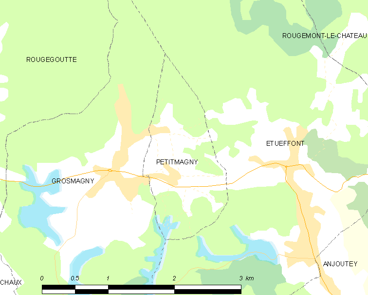 Map of French municipality Petitmagny